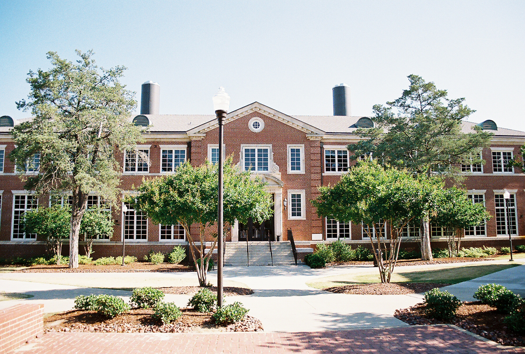 Wilmore Laboratories at Auburn University. Engineering laboratories building at Auburn University, Auburn (Alabama).